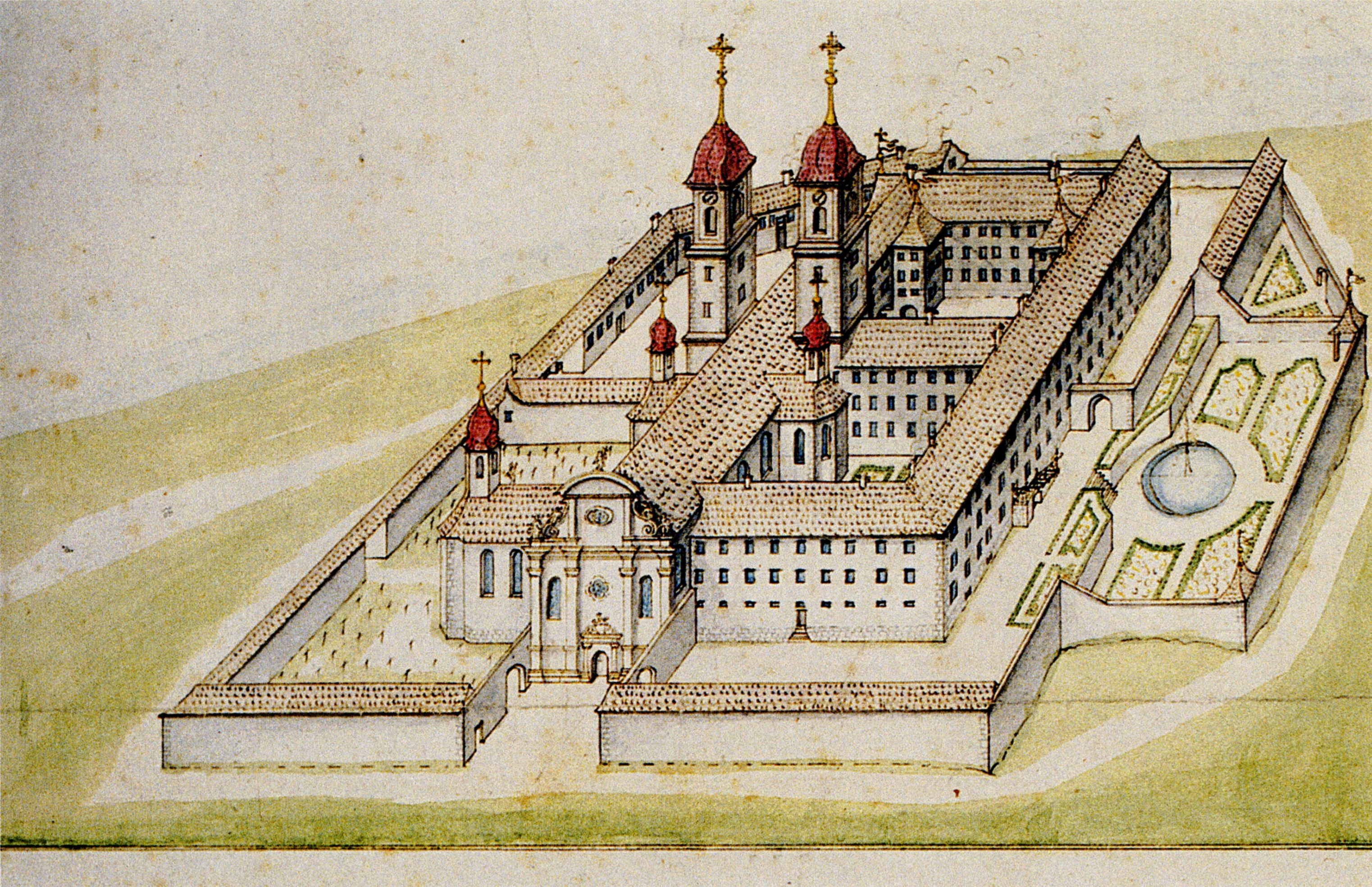 Drawing showing the architect's plans for the monastery of St. Märgen, Germany, 1715